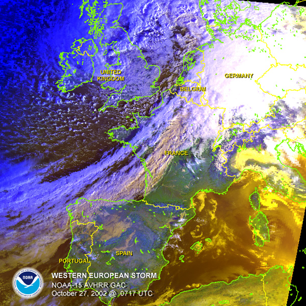 Cyclone Jeanett 2002 over western Europe